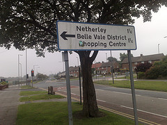 No actual 'district' signs for Belle Vale. This is the nearest type